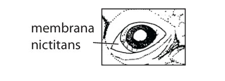 Standard Event System character depiction